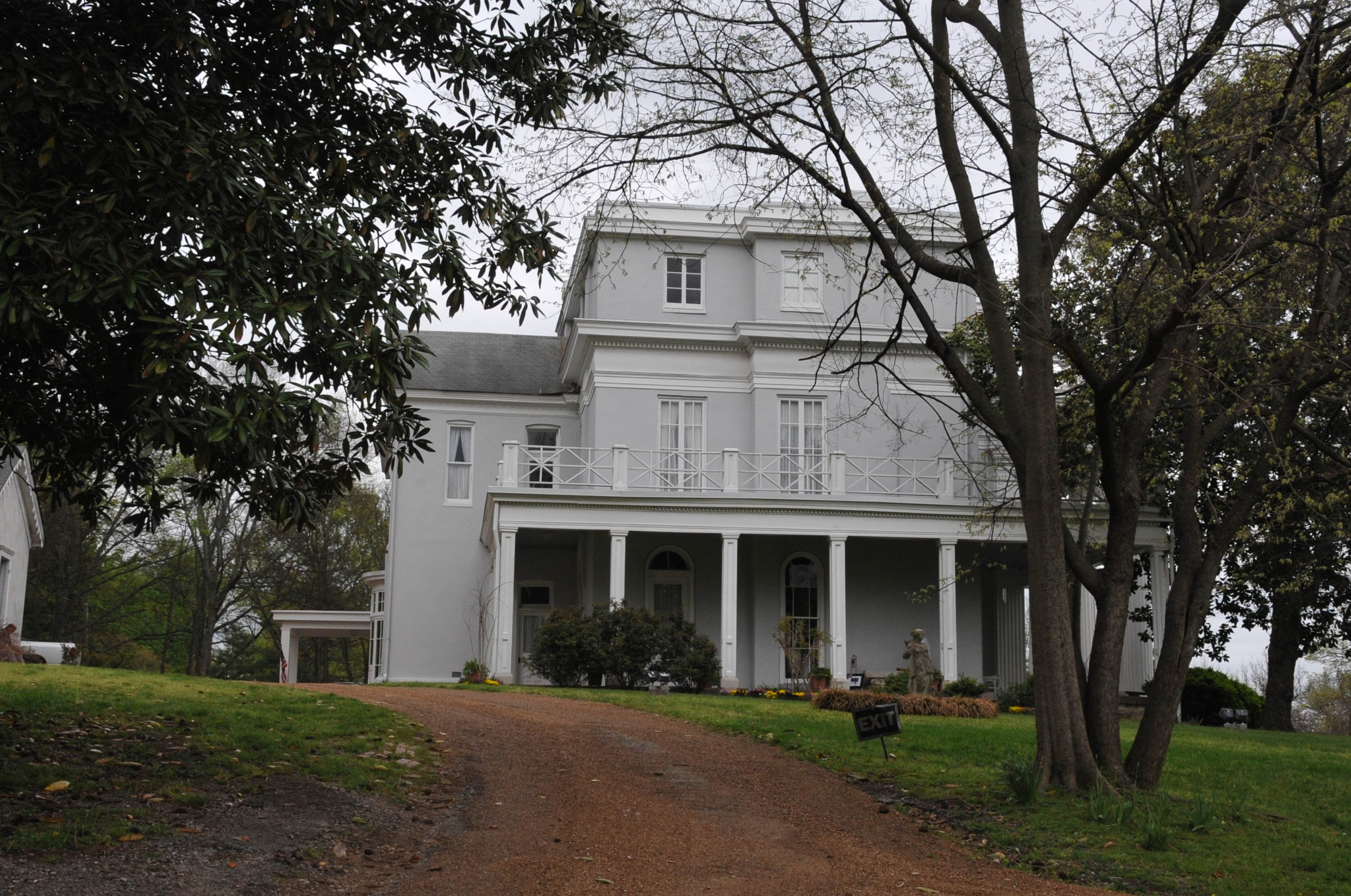 ERECTED IN STAGES IN 1850, 1878, AND 1906 IN VARIOUS STYLES INCLUDING BEAU ARTES, VICTORIAN, ITALIANATE, AND GREEK REVIVAL. South facade, seen from Caldwell Ln.